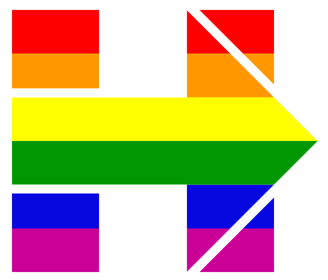 Hillary for American 2016 gay pride alternate logo